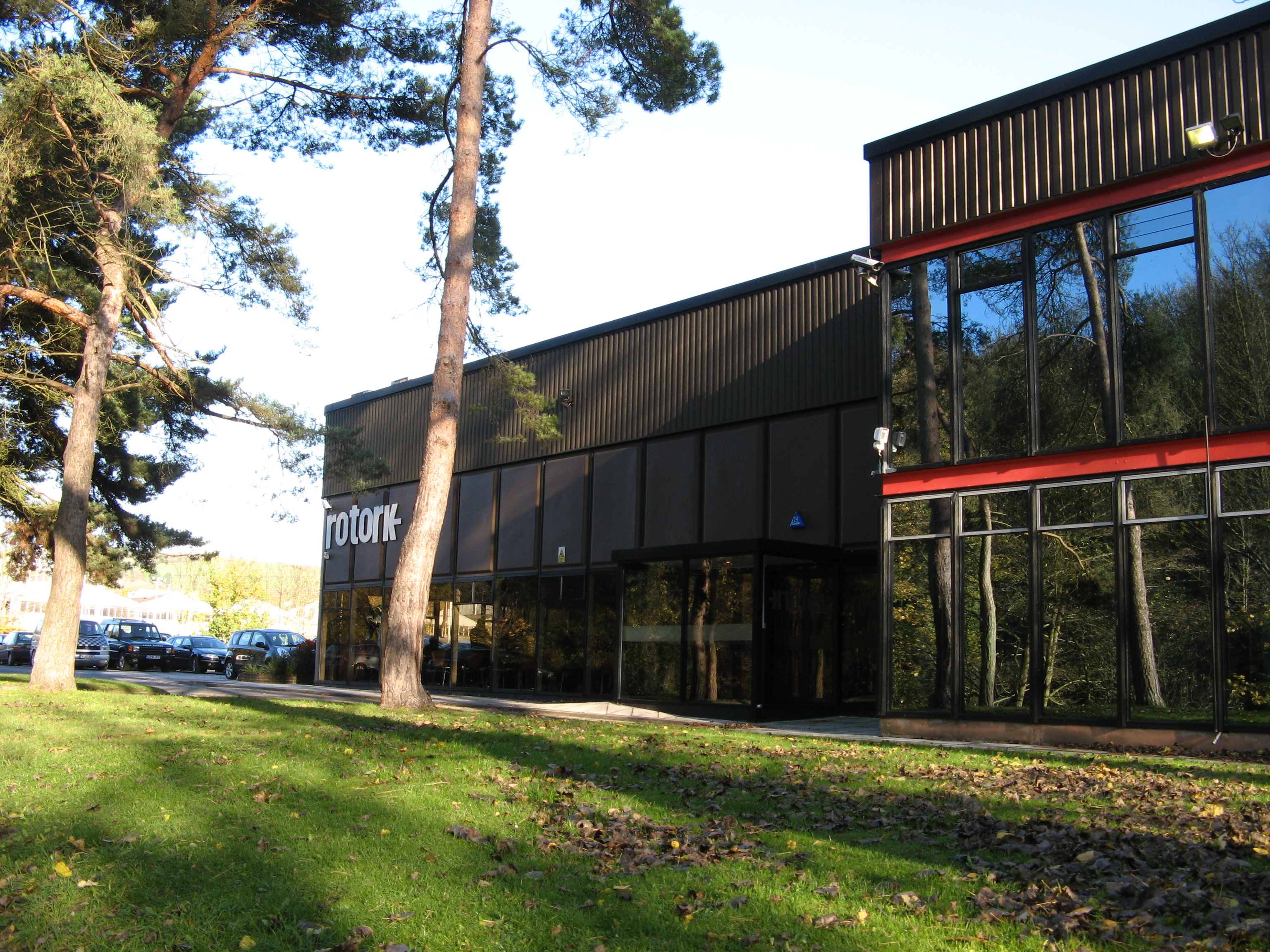 Rotork head office and factory, Brassmill Lane, Bath, from River Avon path.